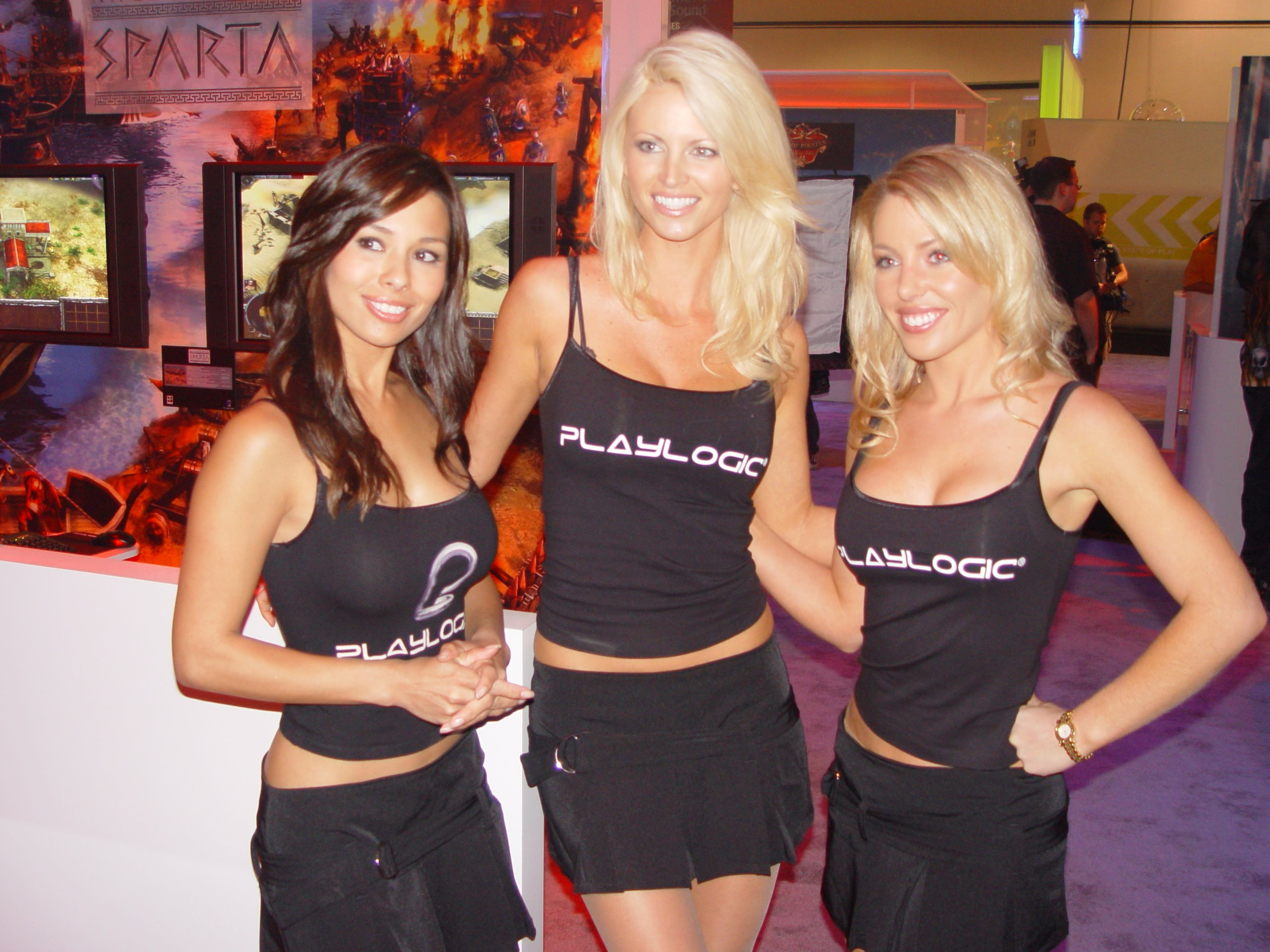 Playlogic booth babes